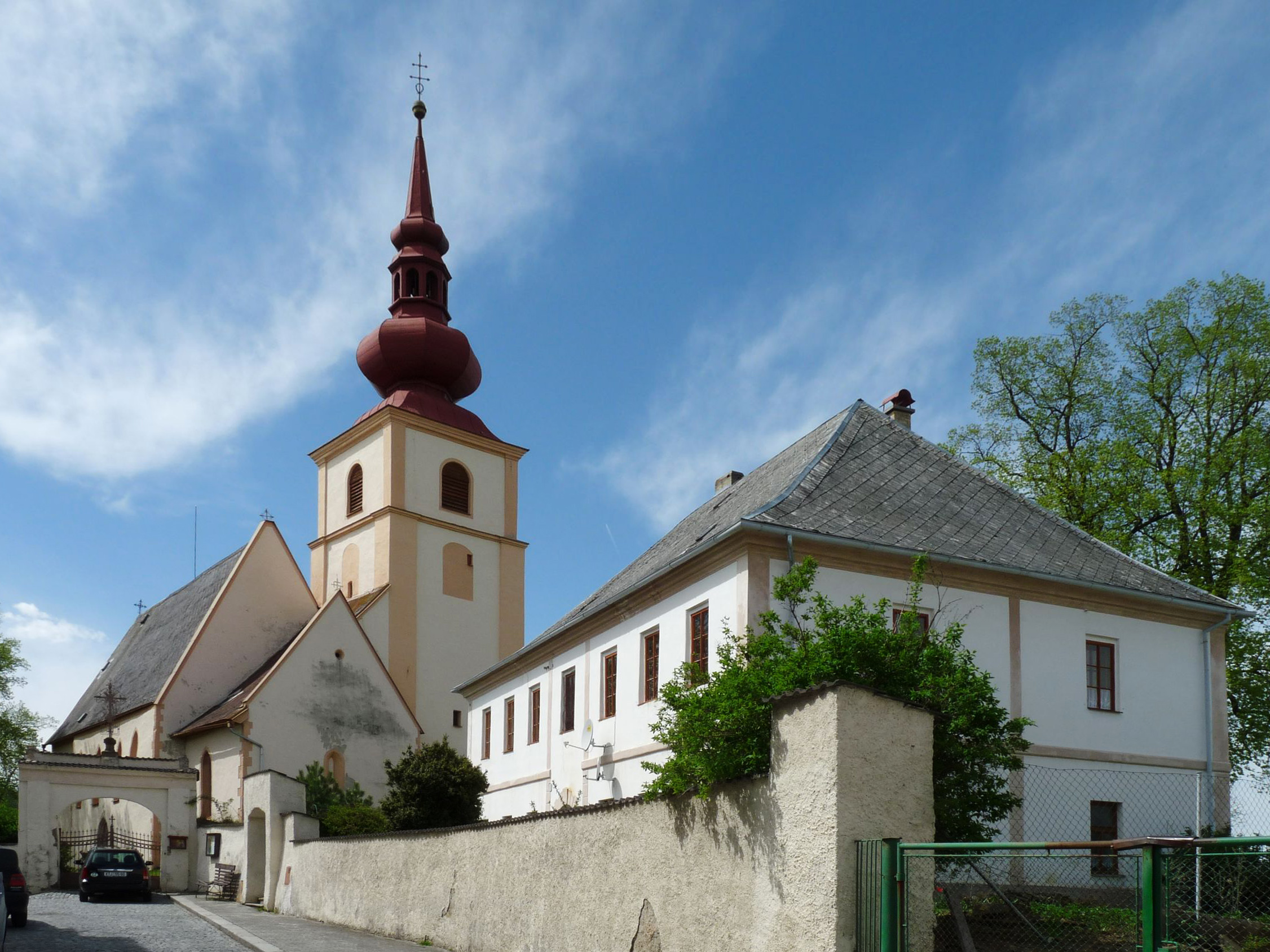 Saint George Church in Strážov in the town of Strážov, Klatovy District, Czech Republic.